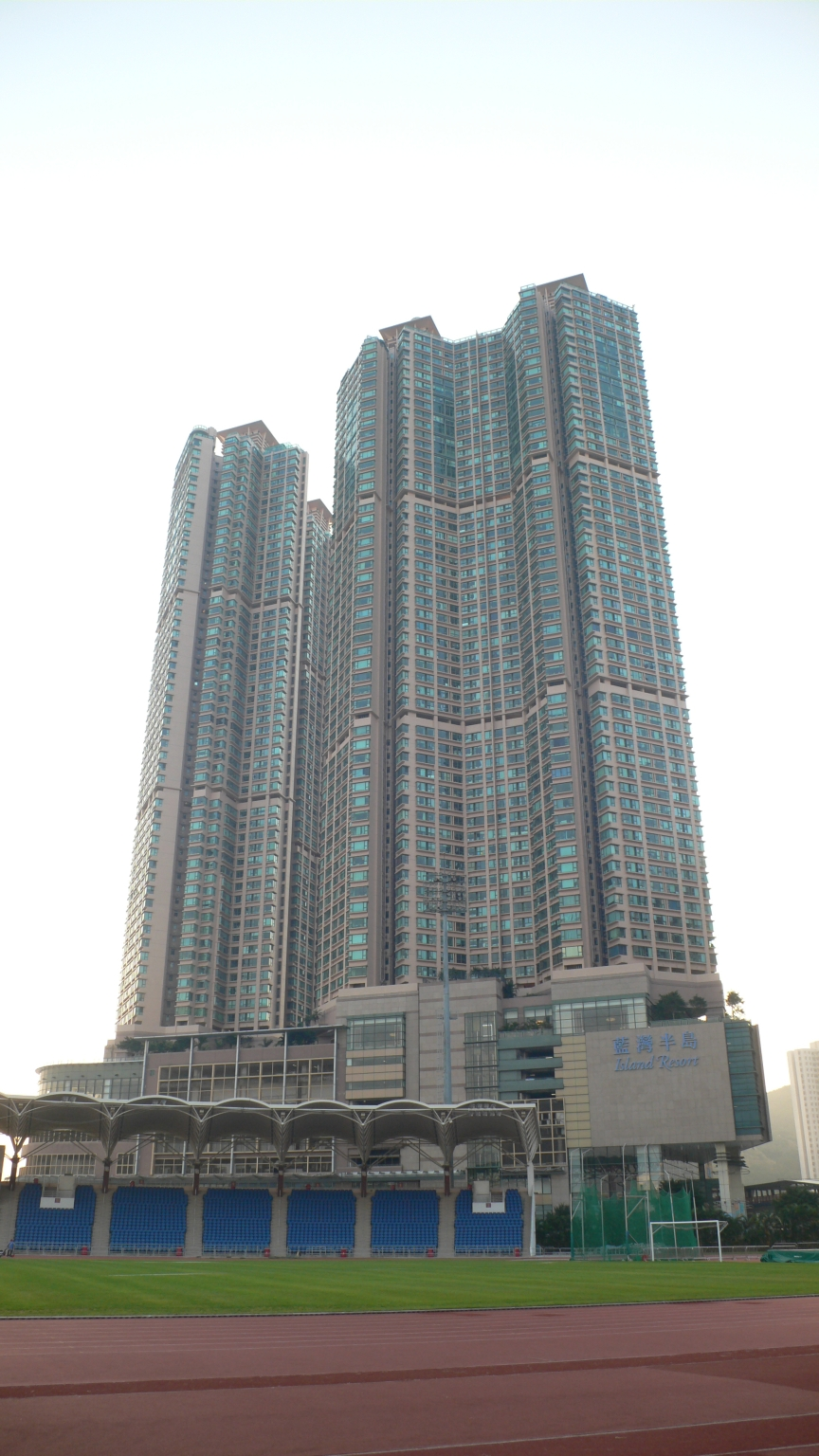 Island Resort, located in Siu Sai Wan, Eastern District of Hong Kong